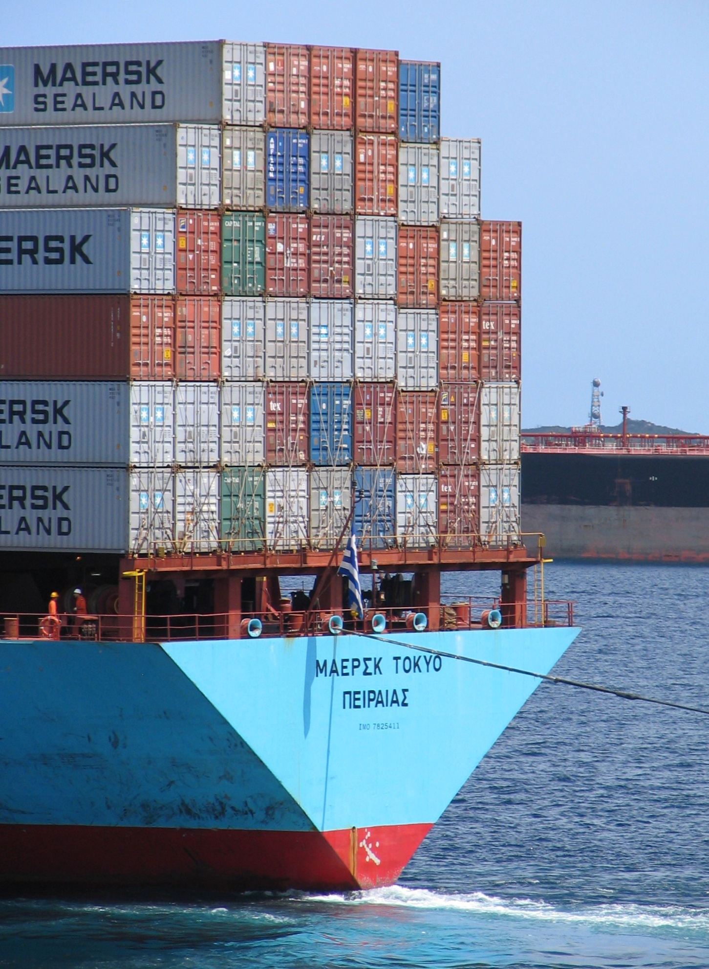 The container ship Maersk Tokyo (IMO 7825411) leaving Port Botany, Sydney, Australia. Taken from Prince of Wales Drive.